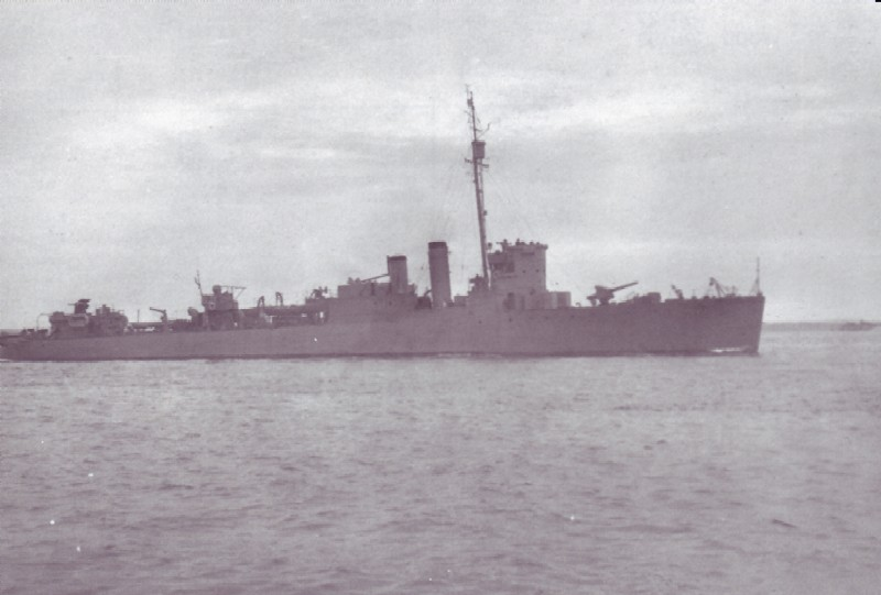 The Town class destroyer HMS Leamington (G19) (ex-Zhguchii, ex-USS Twiggs, DD-127) seen here in temporary guise, superficially altered so as to vaguely resemble HMS Campbeltown as a prop for the film THE GIFTHORSE entering Portsmouth Harbour as the last Town under her own steam.